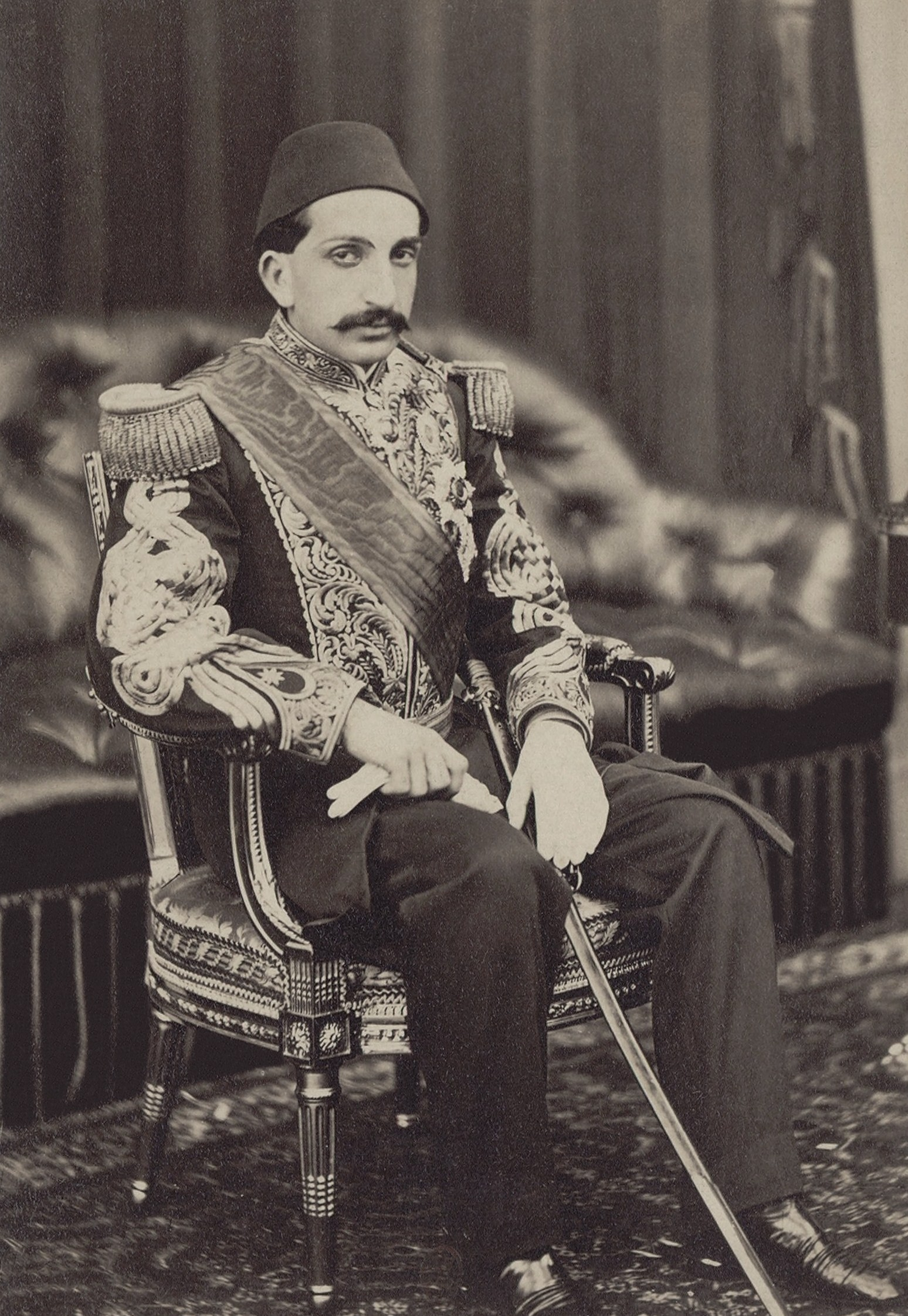 Abdülhamid II of Turkey.